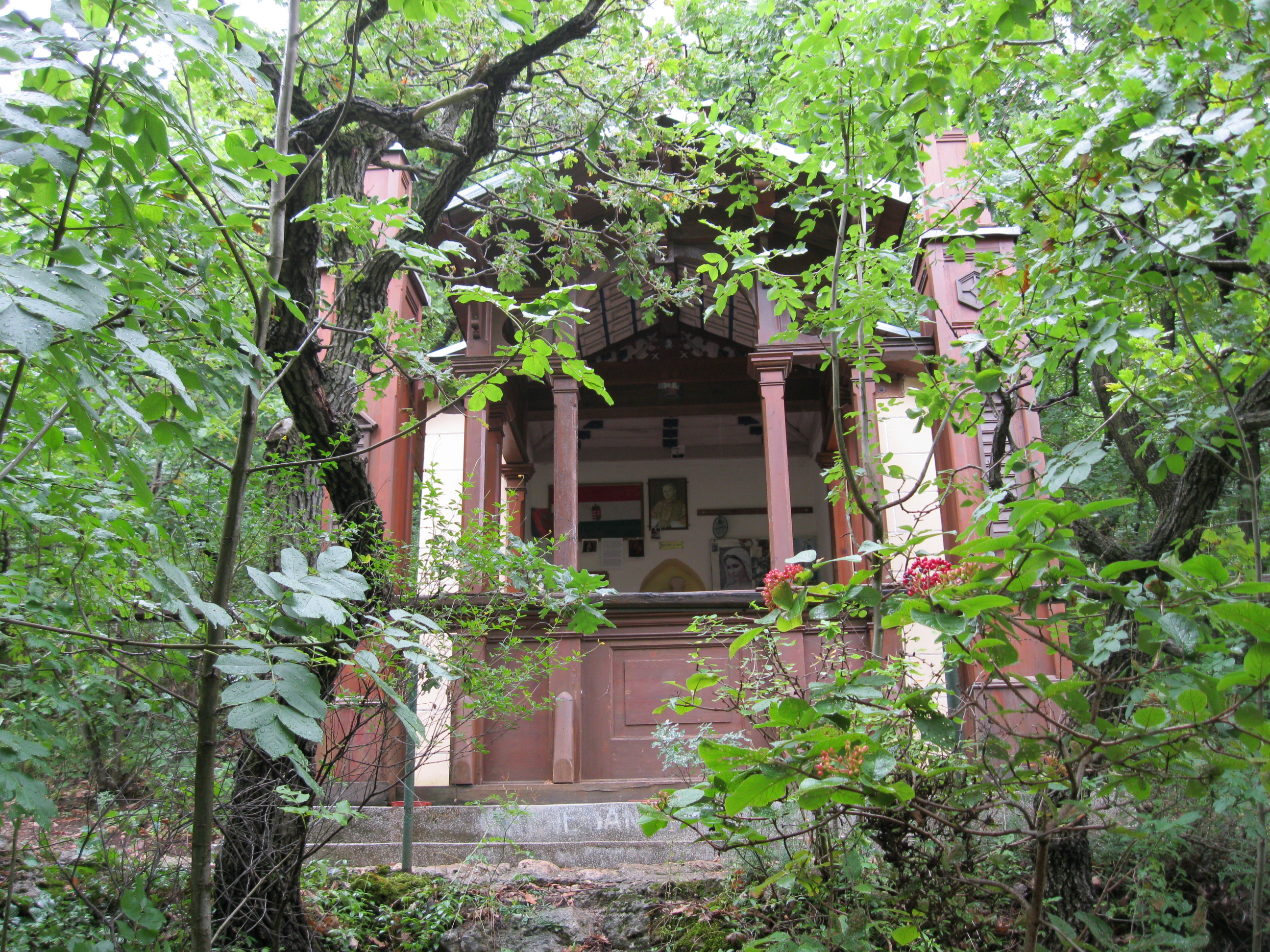 Úti Madonna chapel in Budapest District XII